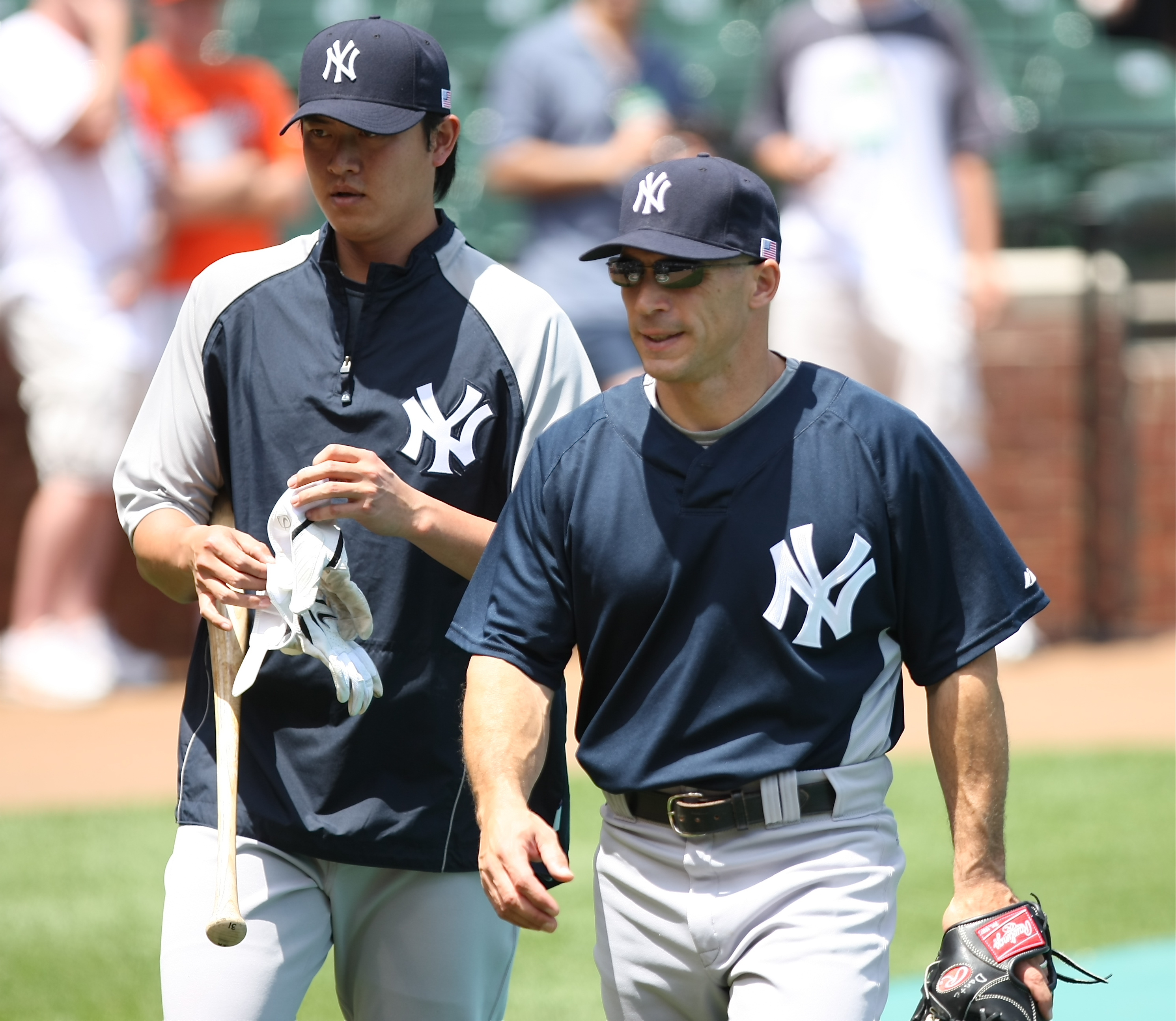 Image used at